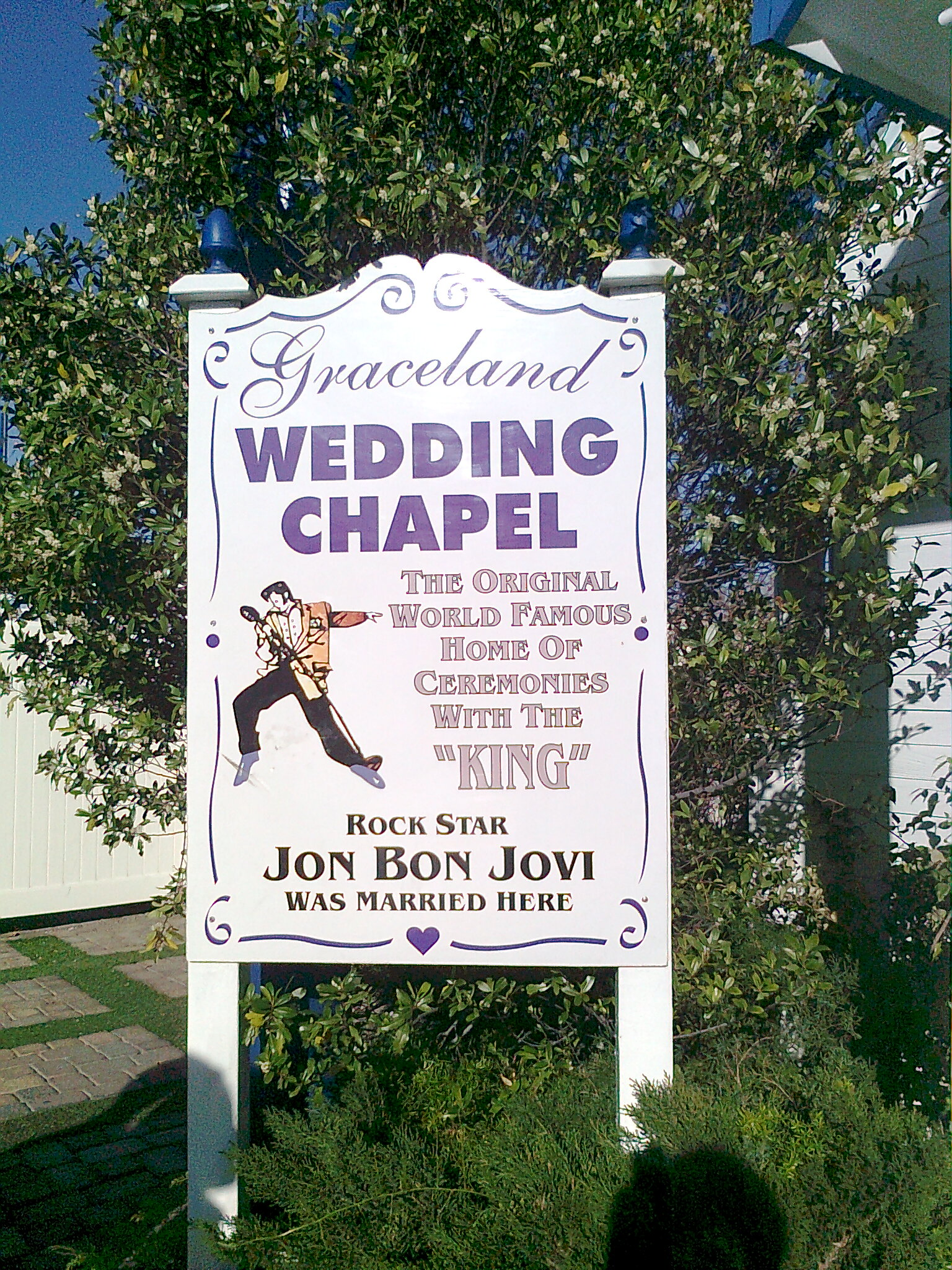 Nokia 6303i classic